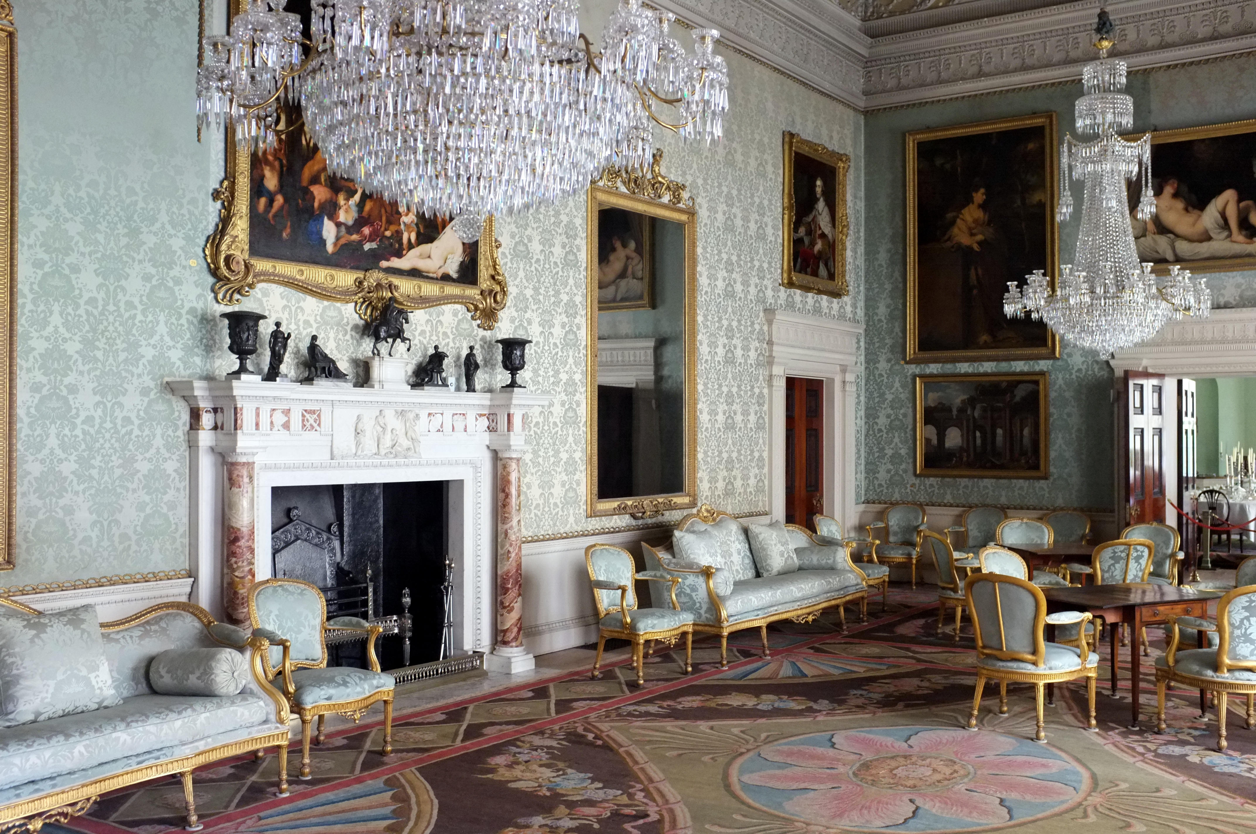 The Saloon